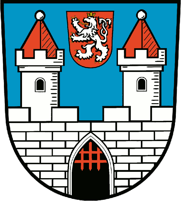 Coat of arms of Drebkau